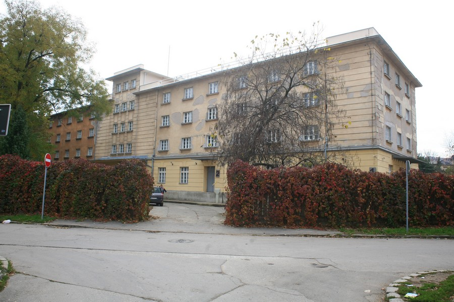 Factory Monopol Niš Srpski (latinica): Fabrika Monopol Niš